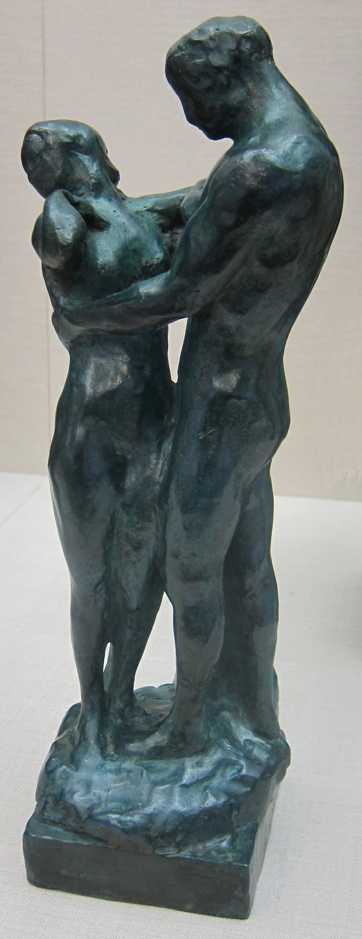 Classicism and the Renaissance by Emily Clayton Bishop, 1907, bronze, Pennsylvania Academy of the Fine Arts